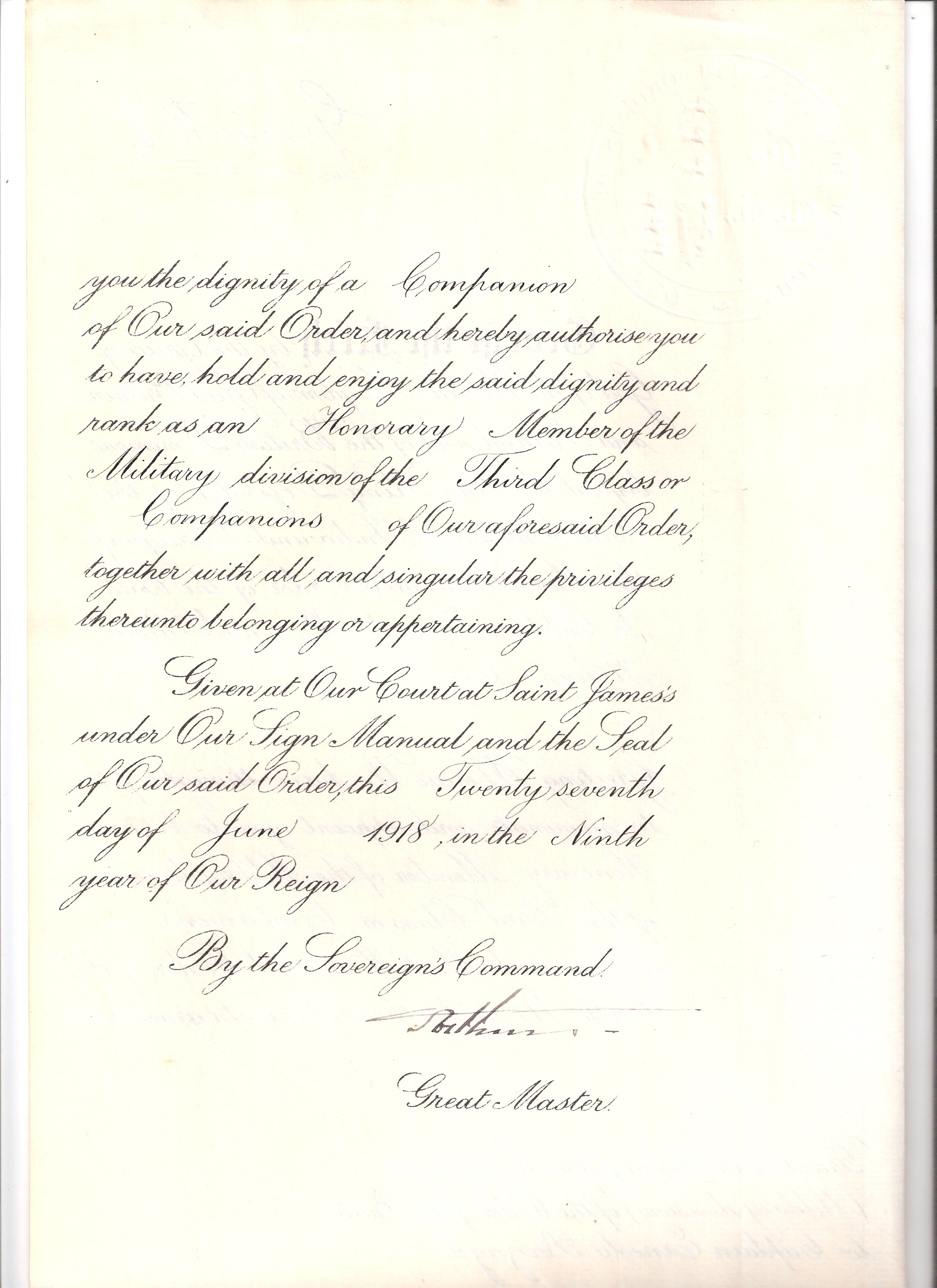 The second page of the official diploma presented to Italian Admiral Ernesto Burzagli when King George V appointed him to the Order of the Bath in 1918. Note autograph signature of the Order's Grand Master, Prince Arthur, Duke of Connaught and Strathearn, at bottom of this second page. ... ALSO see corollary -- Image:Bathorderburzagli1.jpg showing the first page of Admiral Burzagli's Order of the Bath diploma. Note autograph signature of the king at the top of this first page.